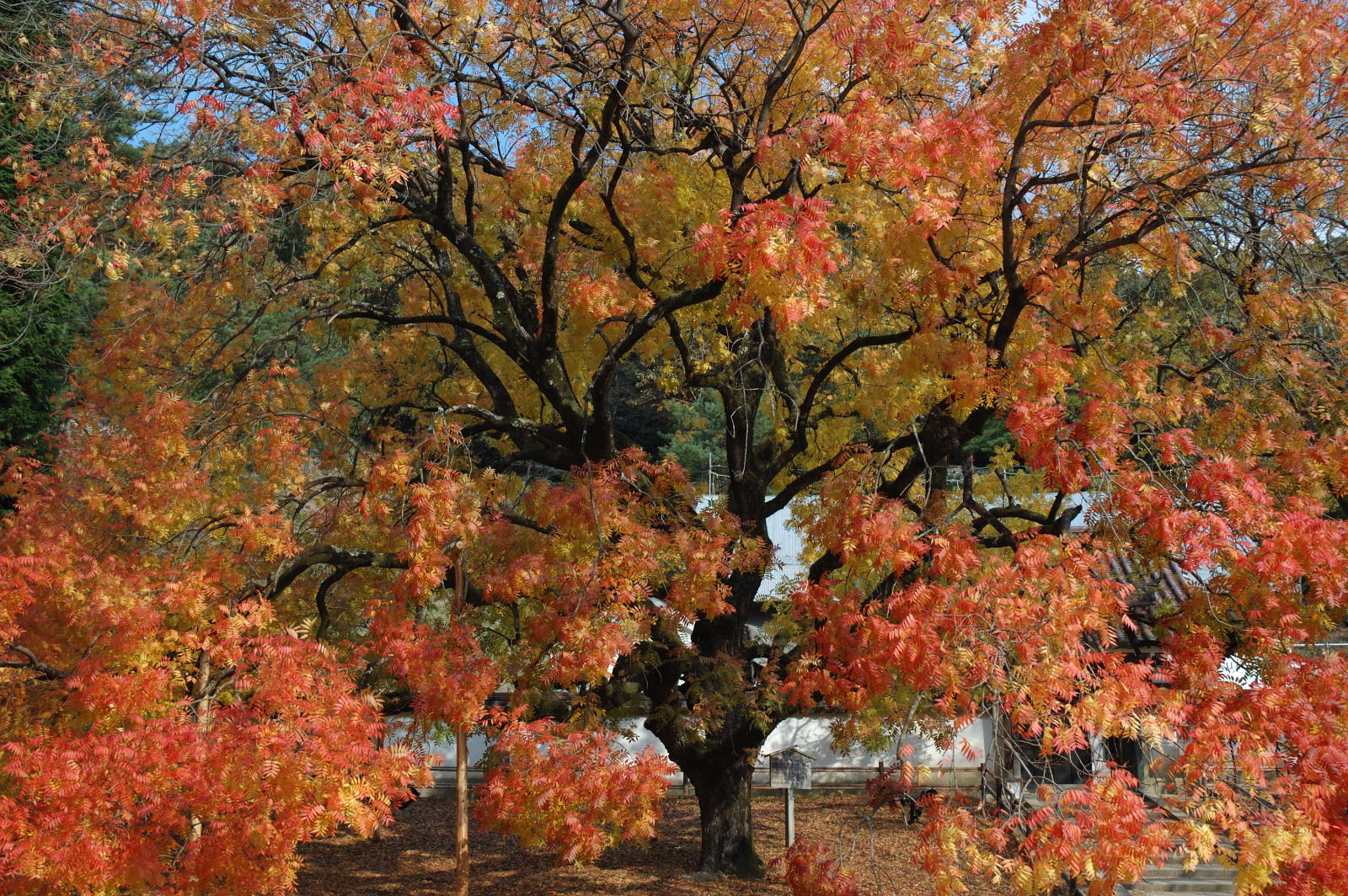 the Confucius tree (Chinese Pistache) that turns red